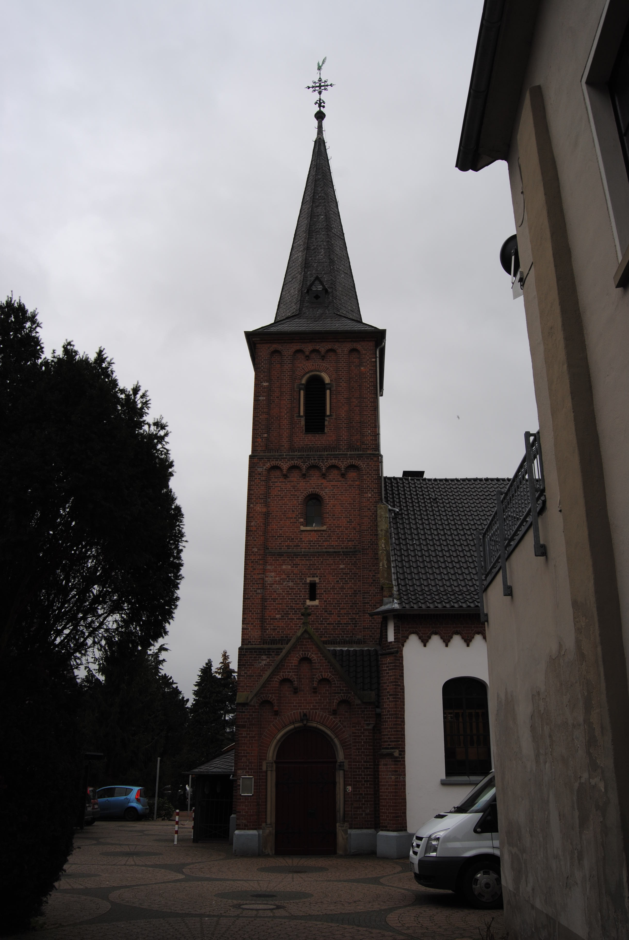 Rheinberg (North Rhine-Westphalia, Germany) – Evangelical Church – seen from east viewing to the tower This image shows a heritage building in Germany, located in the North Rhine-Westphalian city Rheinberg (no. 81). This photograph was taken with a Nikon D3000.